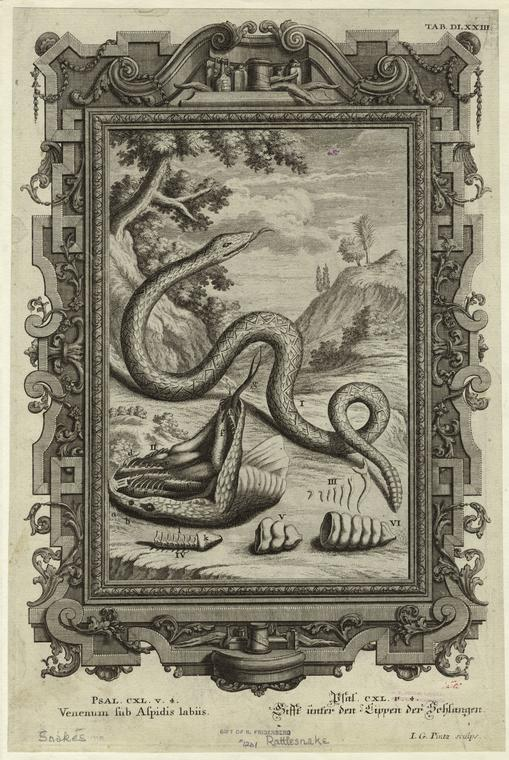 18th-century print of a rattlesnake. The caption reads "Venenum sub Aspidis labiis &/ Gifft unter den Lippen der Schlangen " Signed "I. G. Pintz sculps"